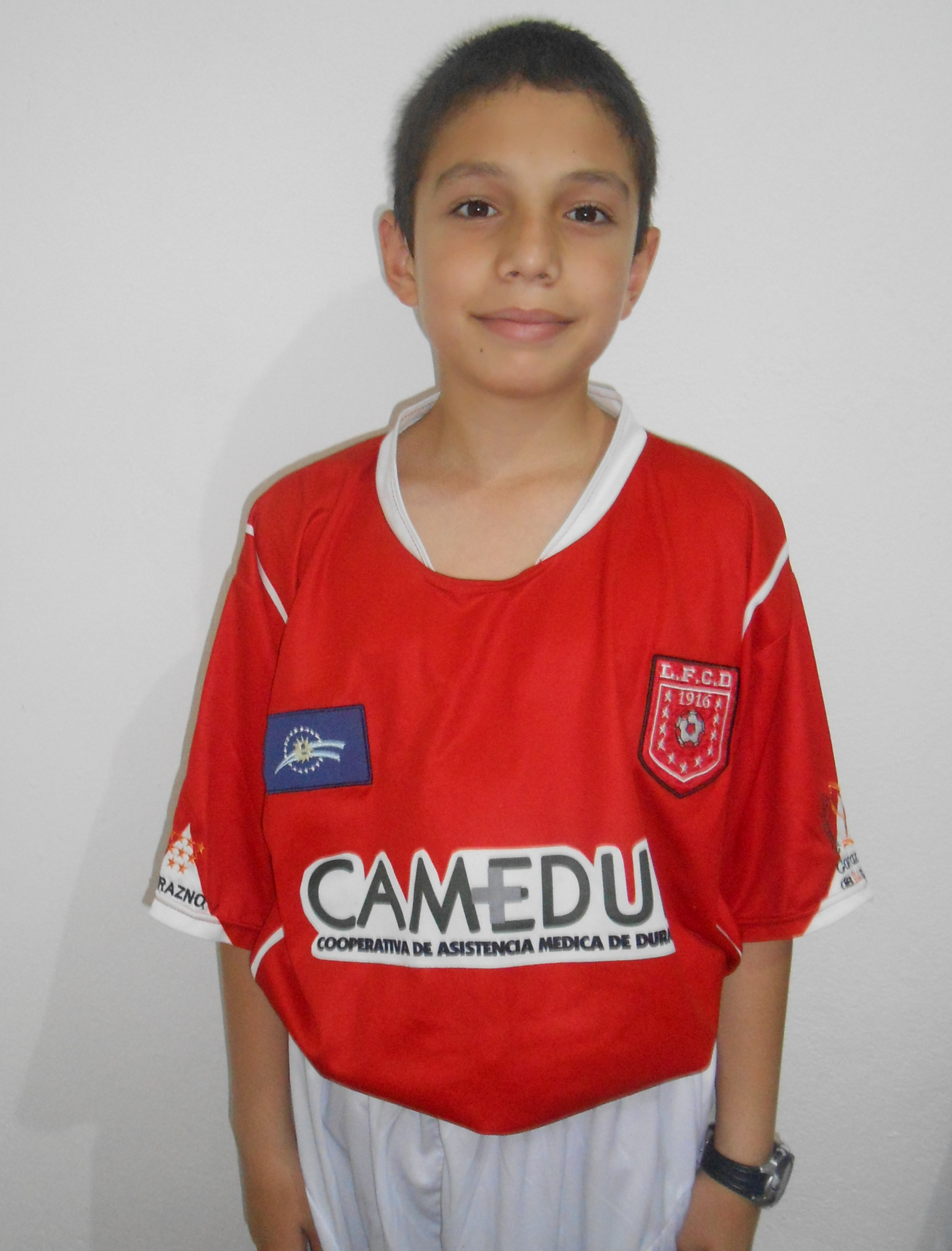 CAMISETA CON ESCUDO ACTUAL DE LA LIGA CIUDAD DE DURAZNO